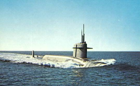 Picture of the USS Thomas A. Edison (SSBN-610). Source: [1]. According to site, the images were by the US Navy.